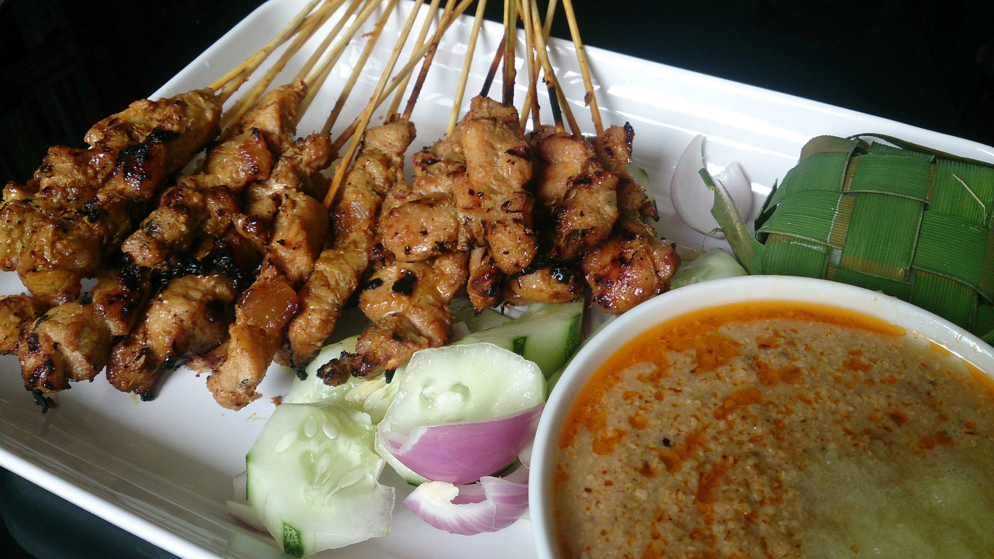 delicious malay meat snack in Singapore